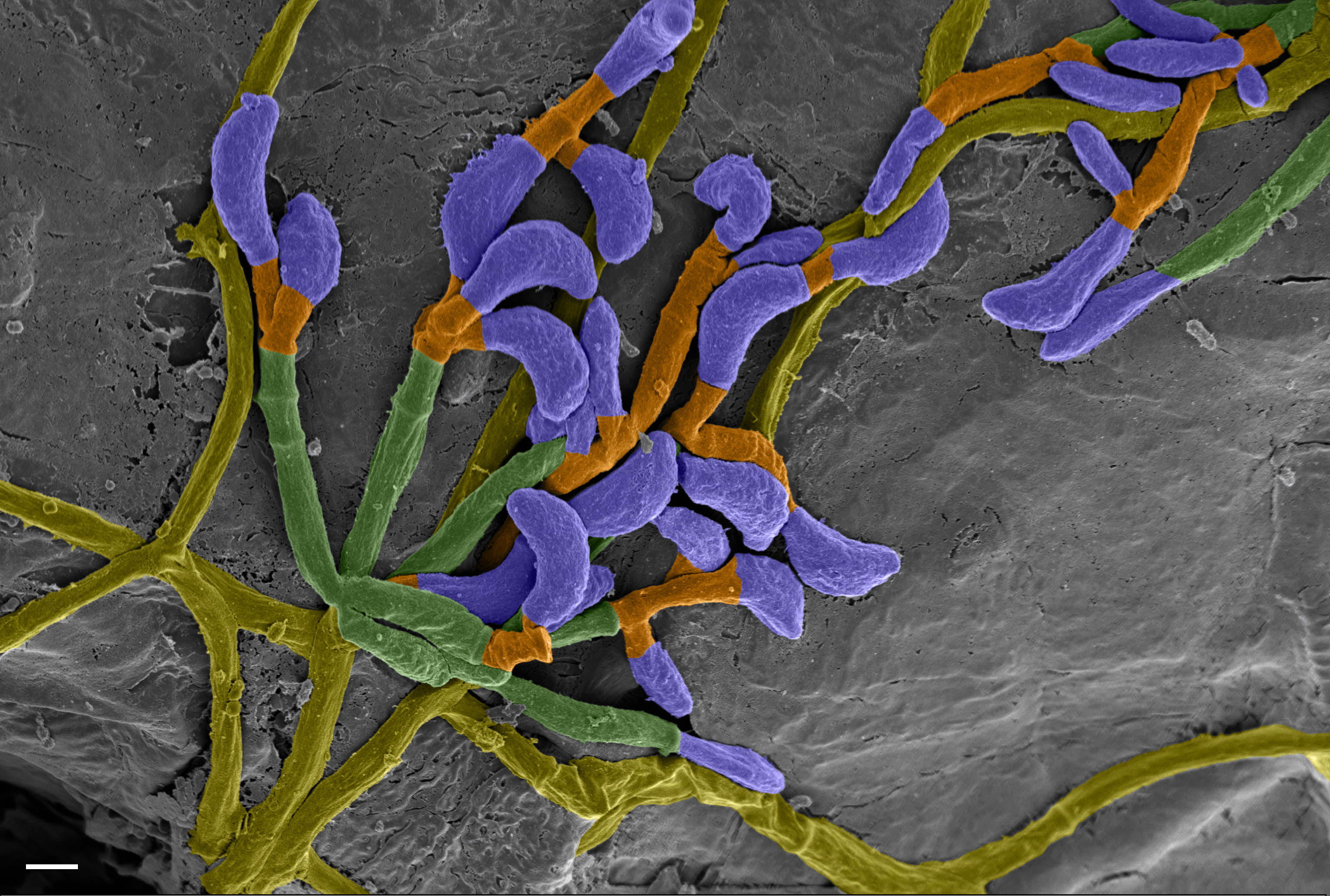 Original false-colored scanning electron micrograph of G. destructans on a Little Brown Bat (Myotis lucifugs) by Deborah J. Springer